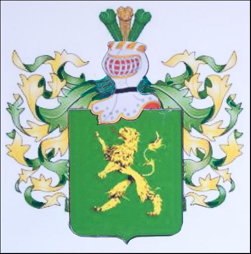 Coat of arms O'Connor Kerry